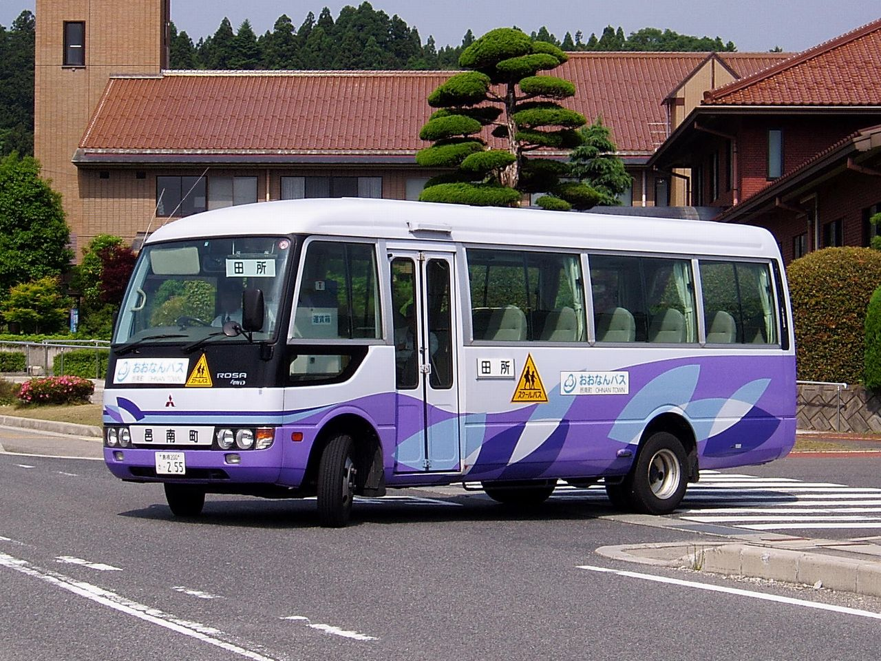 Oonan Town Bus Mitsubishi ROSA 4WD at Oasa Sta.